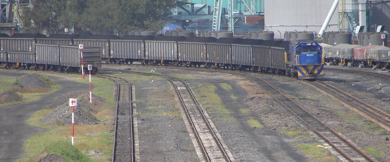 South African Class 35-200 35-204 Builder's Number: EMD 712984 Type: EMD GT18MC Location: Richards Bay, KwaZulu-Natal